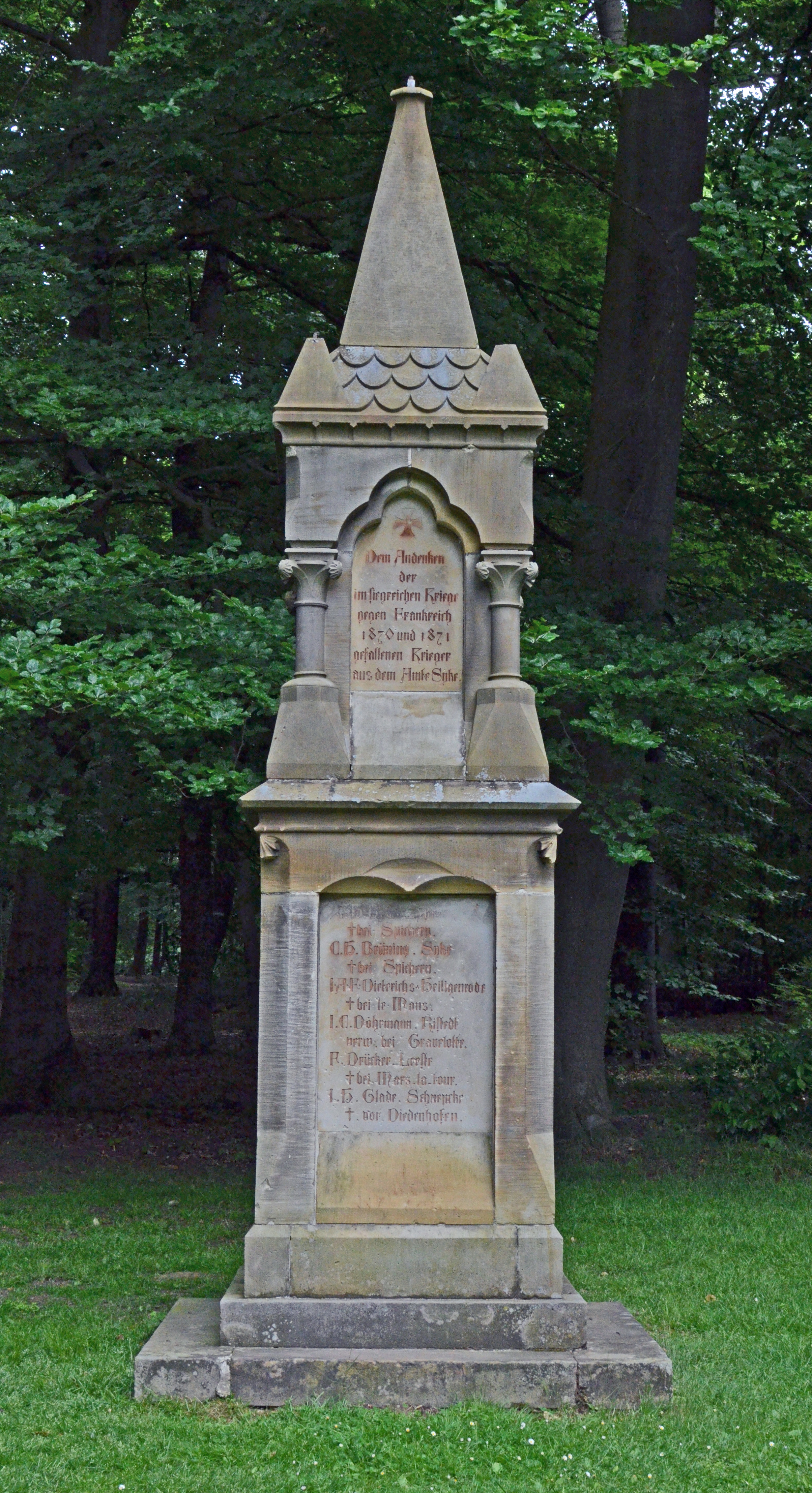 Cultural Heritage Monument in Syke